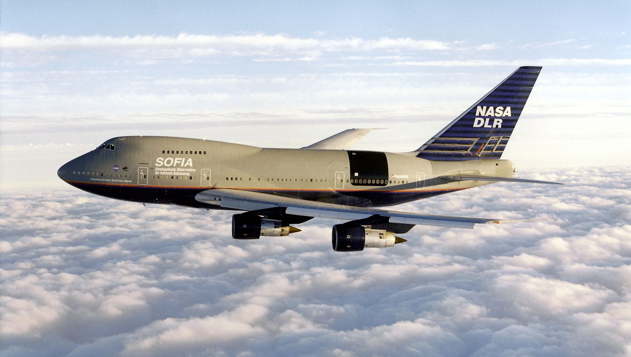 The SOFIA aircraft, a Boeing 747SP, is pictured flying above the clouds over Waco, Texas during a test flight in 1998. In this photo, the aircraft bears the SOFIA acronym and the acronyms of the project sponsors, the United States' National Aeronautics and Space Administration (NASA) and Germany's Deutsches Zentrum für Luft- und Raumfahrt e.V. (DLR) but is otherwise still mostly in the livery of the aircraft's previous owner, United Airlines. A black square has been painted on the aft port fuselage to indicate the location of the 18 feet (5.5 m) by 13.5 feet (4.1 m) door that will be opened in flight to allow the telescope access to the sky.